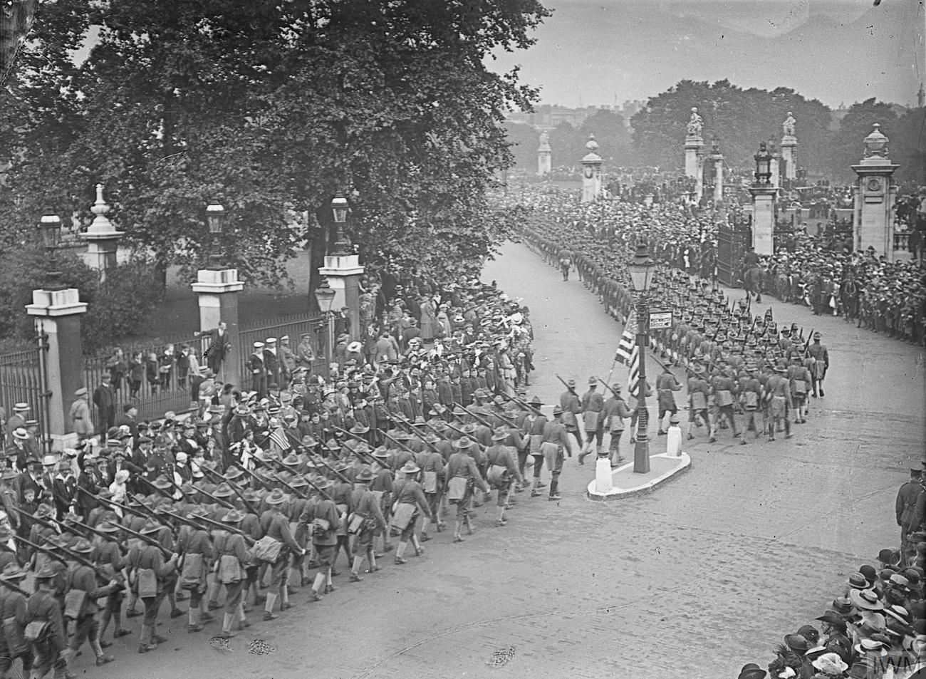 The US Army in Britain, 1917-1918 Column of American troops passing by the Buckingham Palace, London.